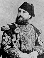 Thaddeus P. Mott in Ottoman Turk Regalia